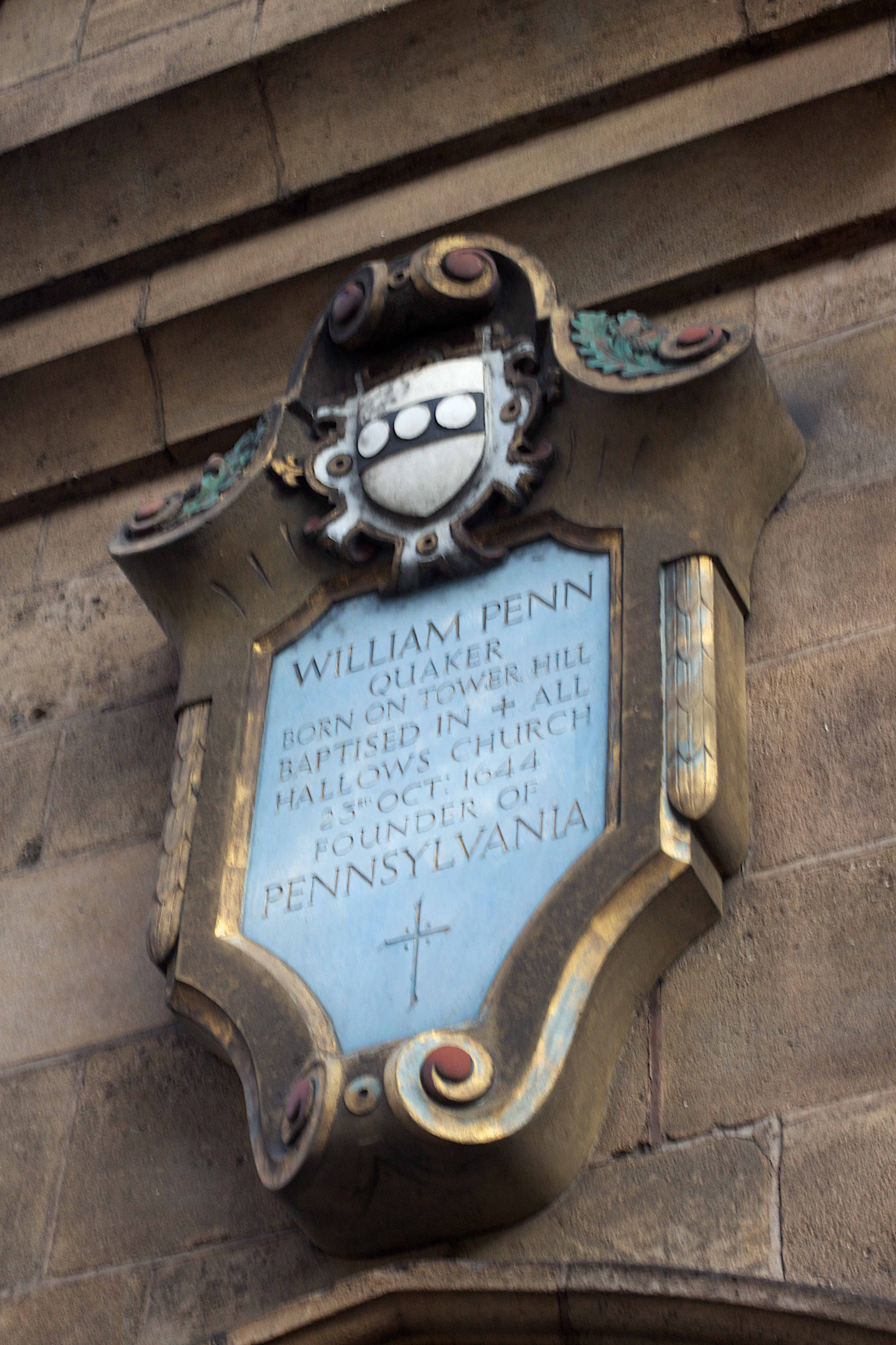 William Penn memorial at All Hallows Church, labeled as "the oldest in England". That means realy really old.